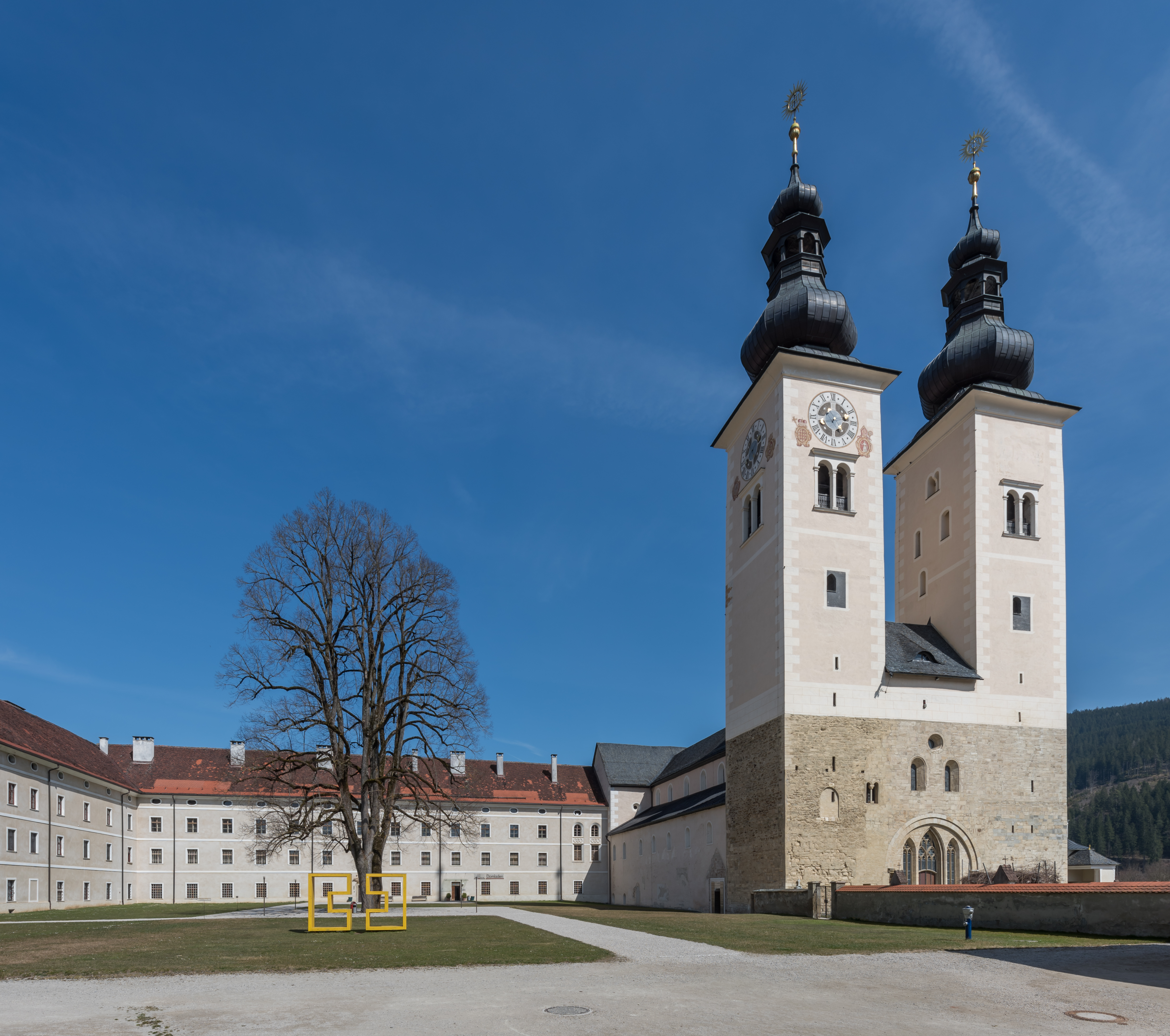 Cathedral and chapter building (Gurk Monastery) on Domplatz #1, market town Gurk, district Sankt Veit an der Glan, Carinthia, Austria, EU